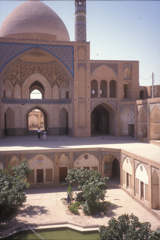 I took this photo on a Fuji 200 film camera. Yes, there are many similar photos like it on the web. But I took this one.